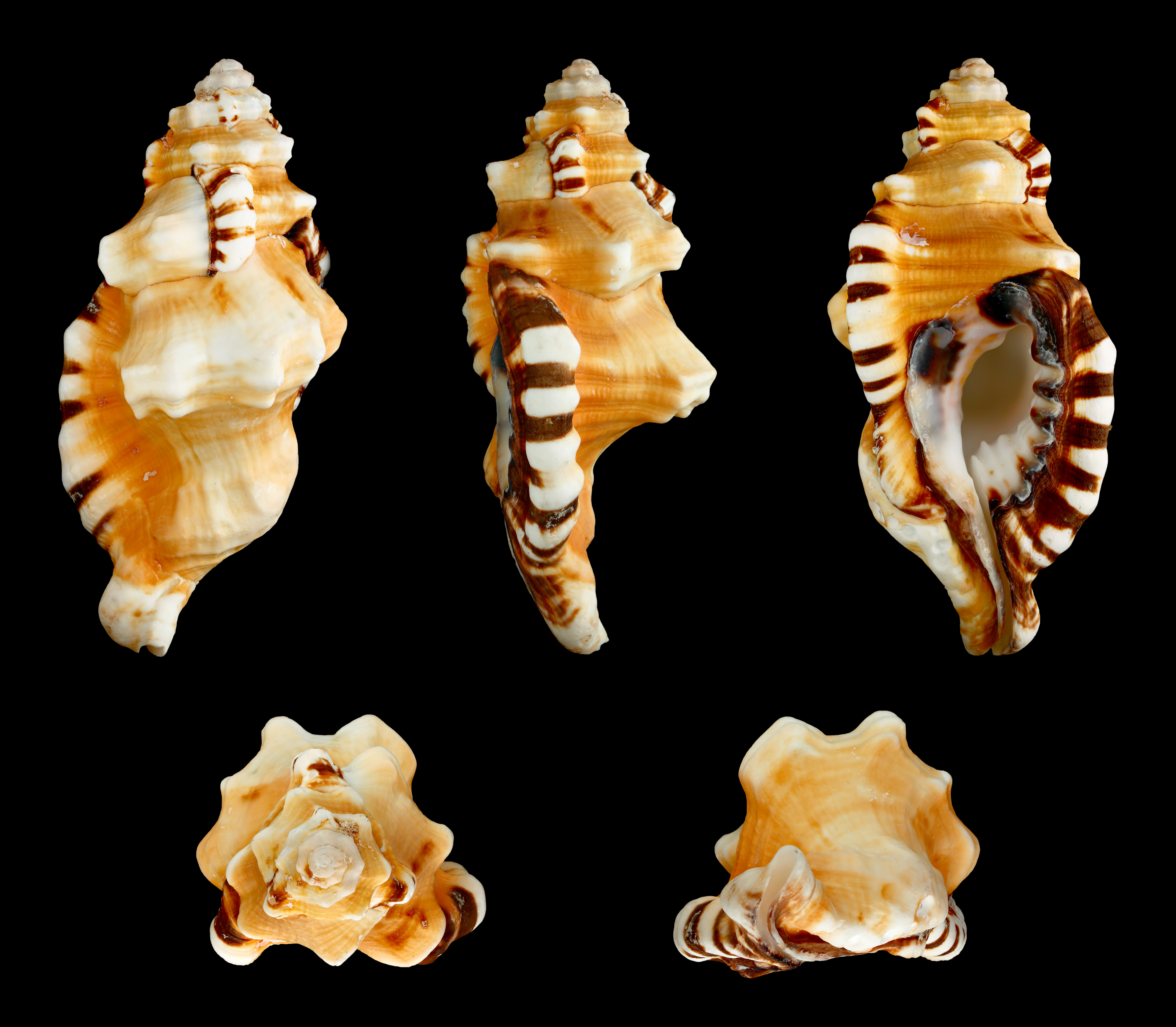 Black-spotted Triton; Length 13.9 cm; Originating from the Philippines; Shell of own collection, therefore not geocoded. Dorsal, lateral (right side), ventral, back, and front view.